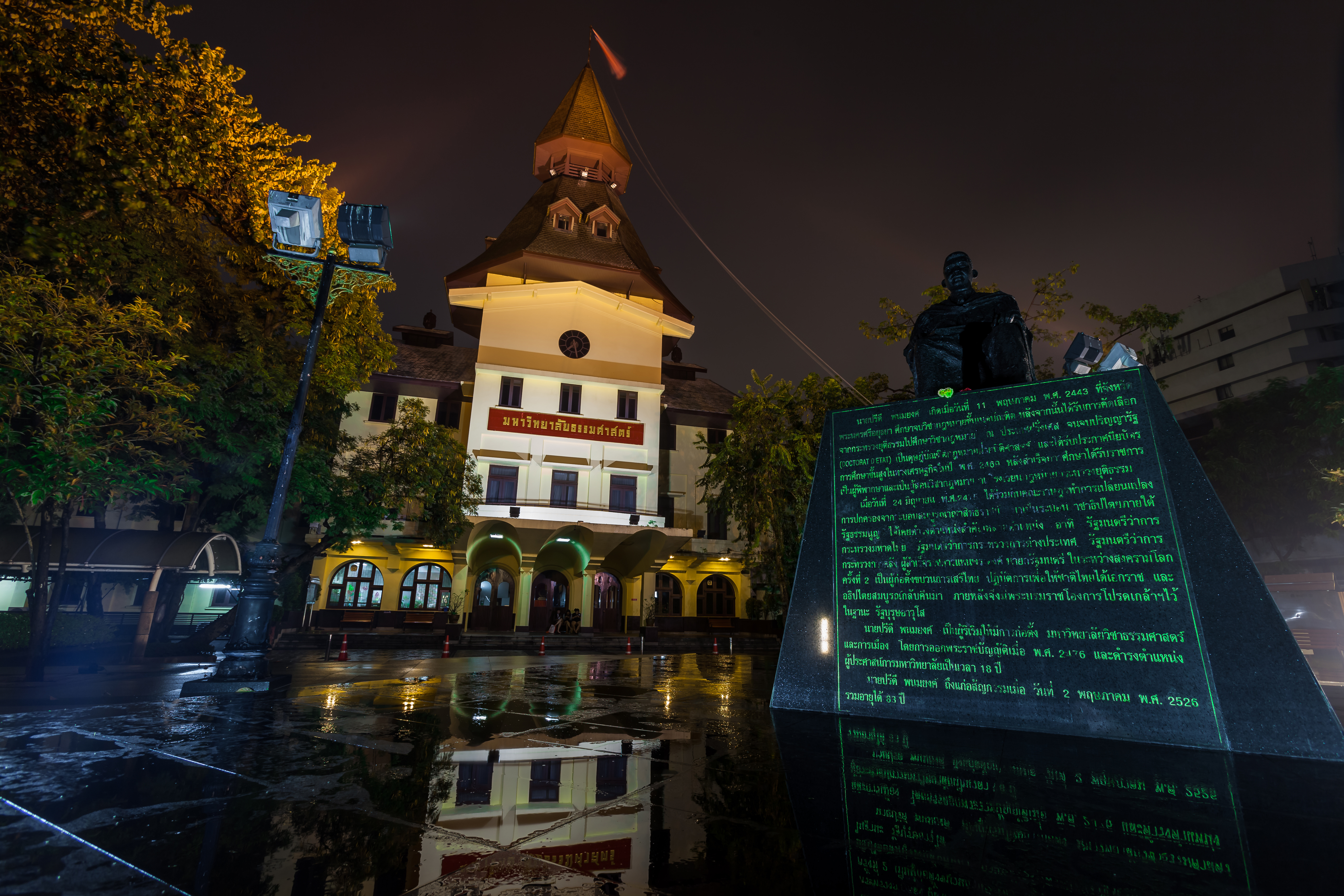 Dome of Thammasat University and Pridi Phanomyong monument.